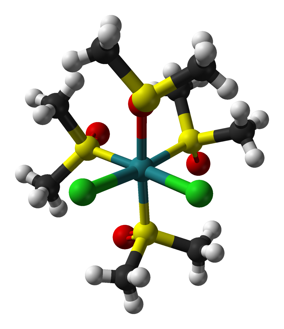 Ball-and-stick model of the cis,fac-dichloridotetrakis(dimethyl sulfoxide)-κ3S,κO-ruthenium(II) molecule, [RuCl2(C2H6OS)4], from the crystal structure of the third monoclinic polymorph, space group P21/c. X-ray diffraction data from Acta Cryst. (2008). E64, m1023. Model constructed in CrystalMaker 8.1. Image generated in Accelrys DS Visualizer.